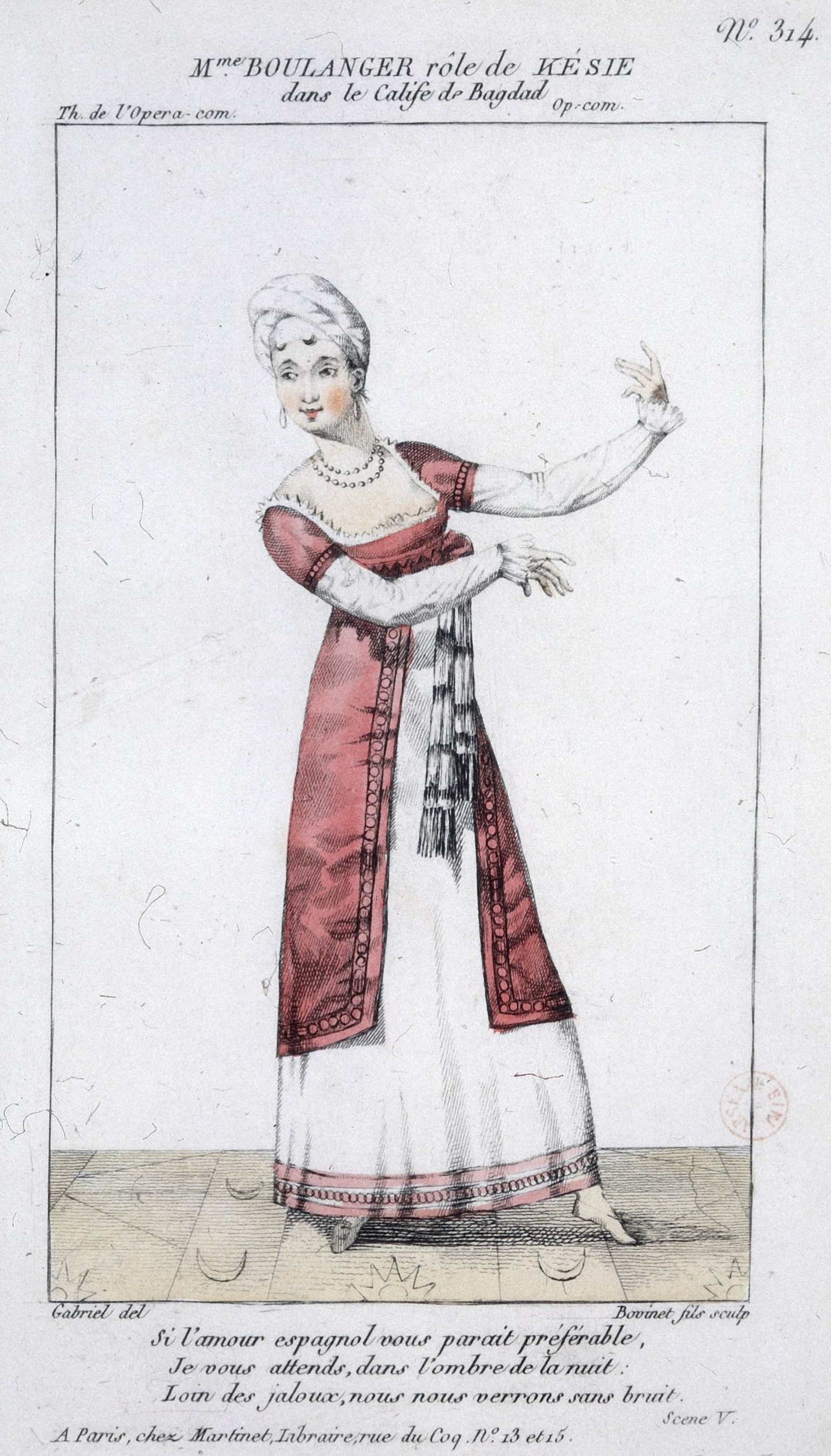 François-Adrien Boieldieu - Le calife de Bagdad - costume of Madame Boulanger as Késie - Paris 1811